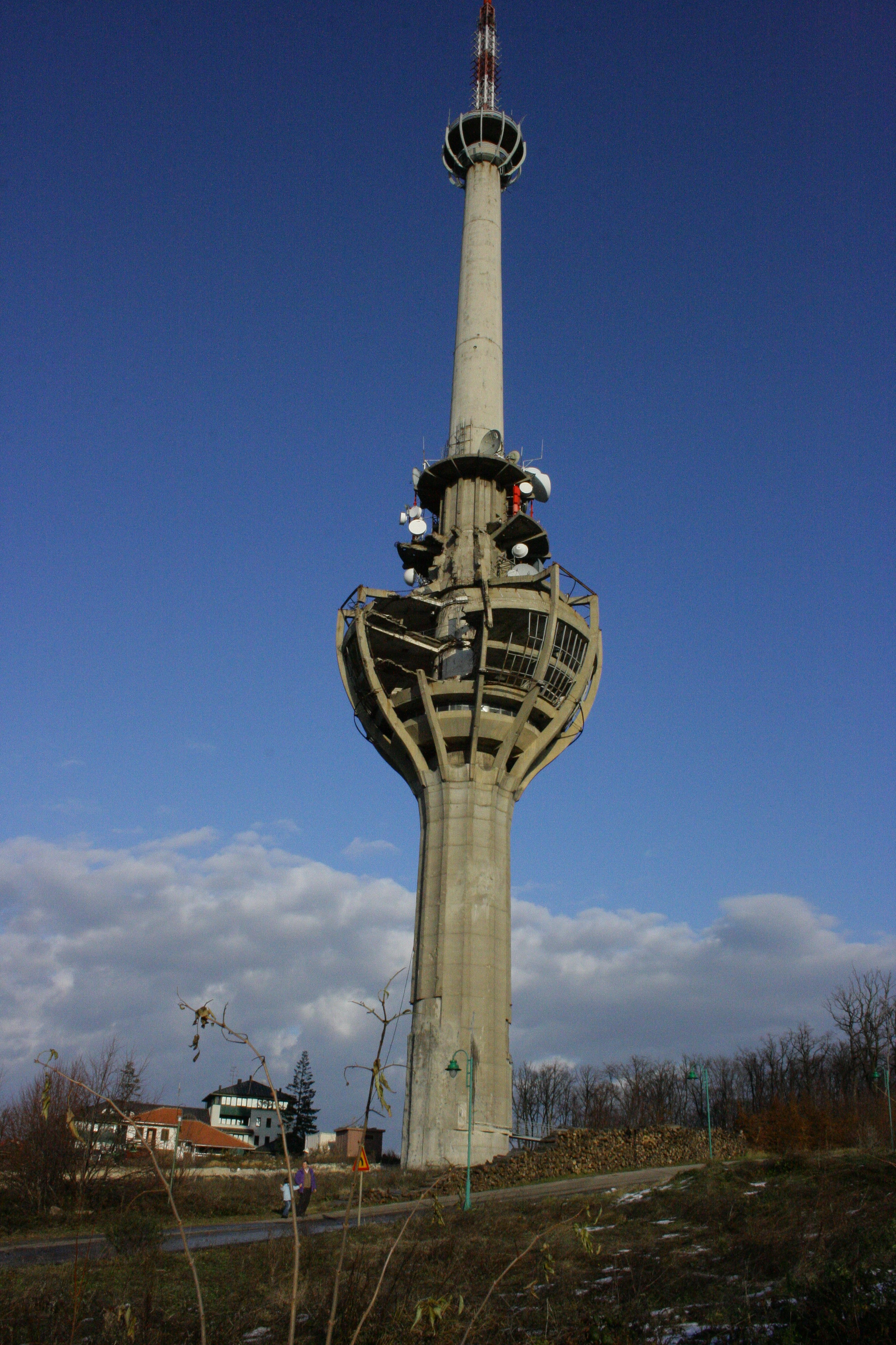 TV tower on Čot damaged in NATO campaign against the former Yugoslavia